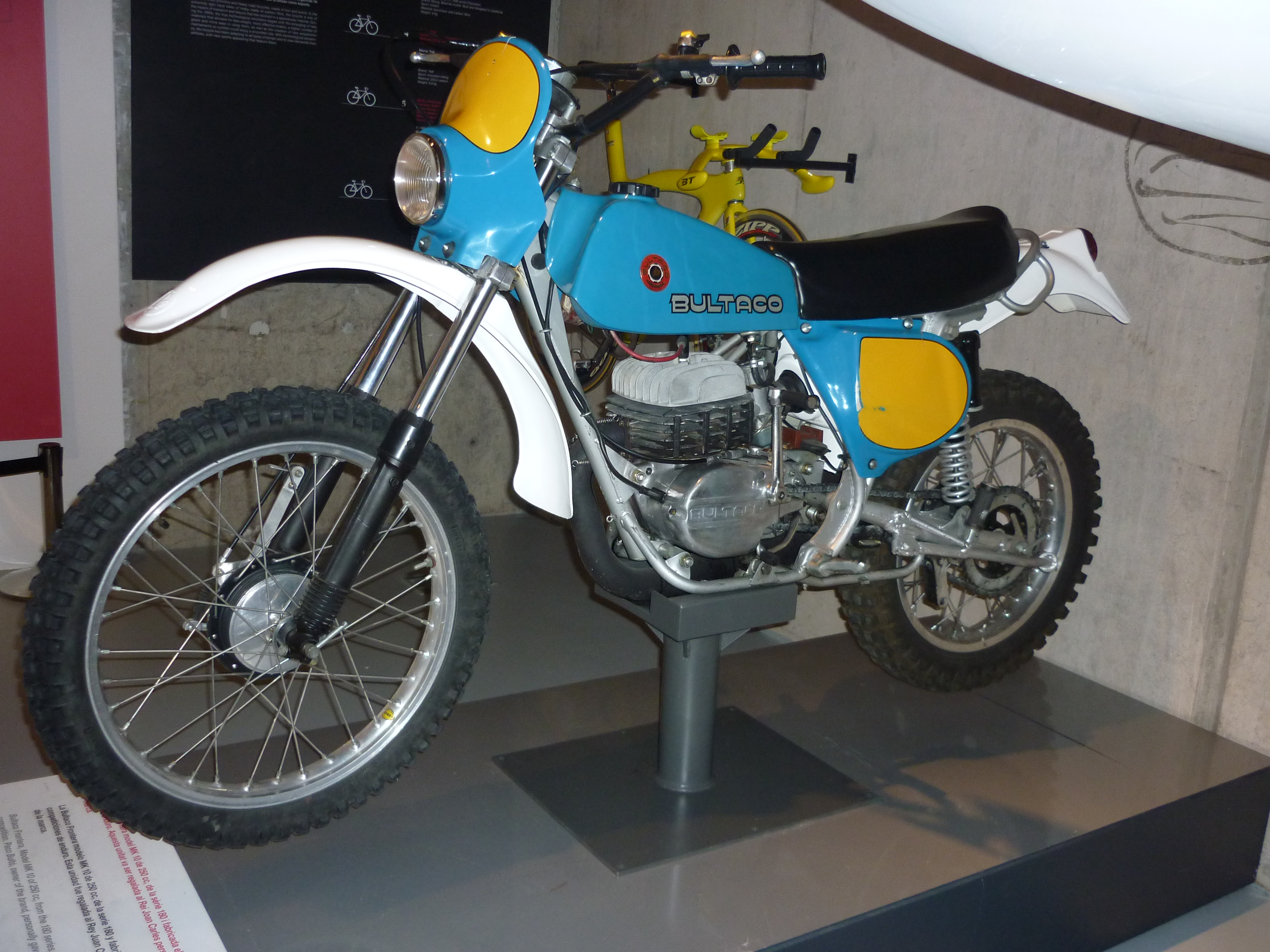 Bultaco Frontera MK10 250cc from the 180 series, 1976. This unit belonged to the king of Spain.